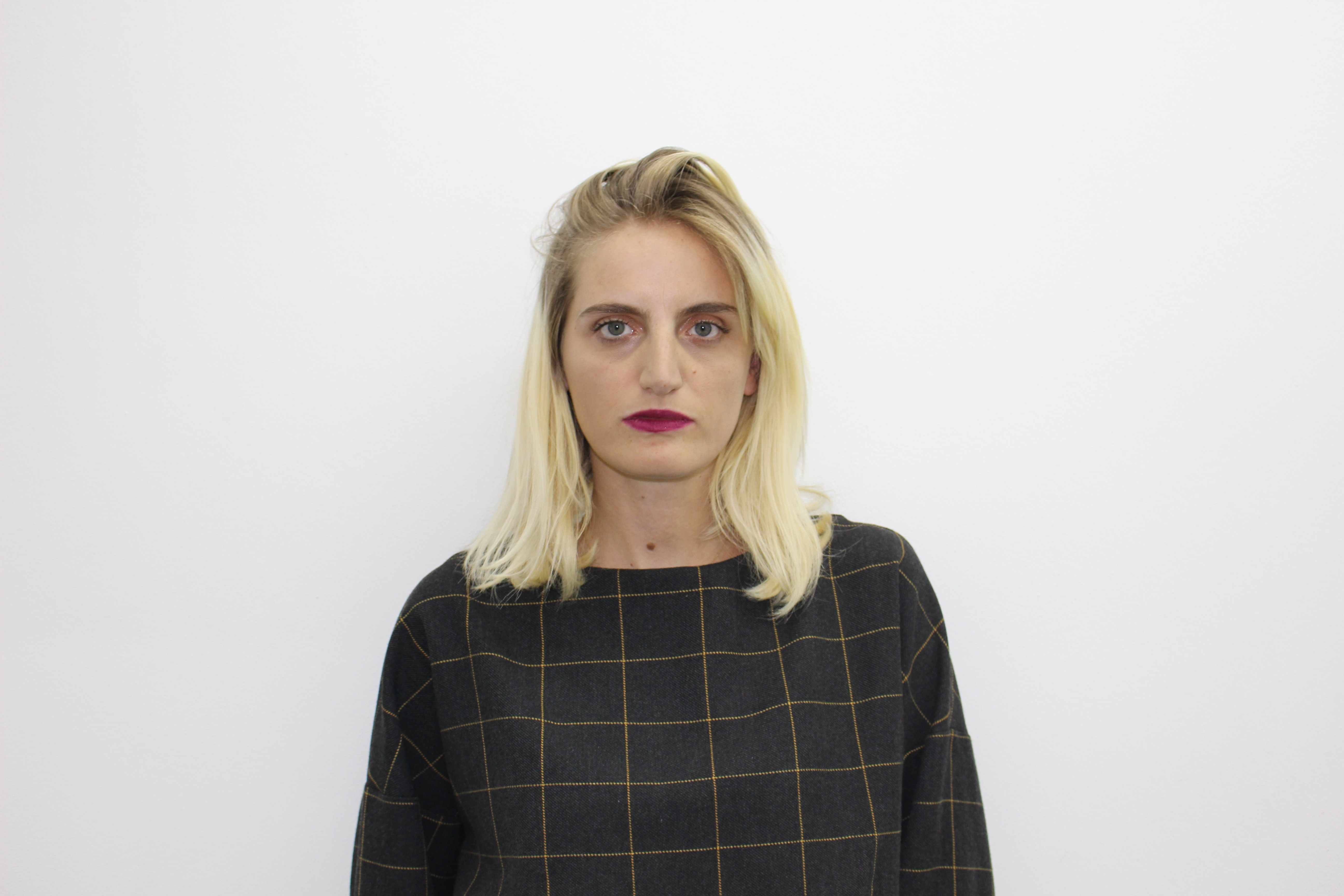 Lola Sylaj